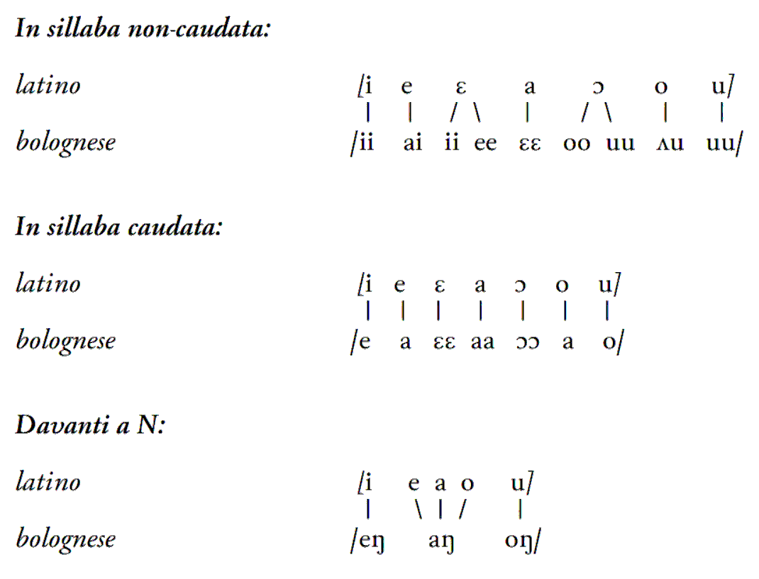 Phonetic evolution of the dialect spoken in Bologna, Italy